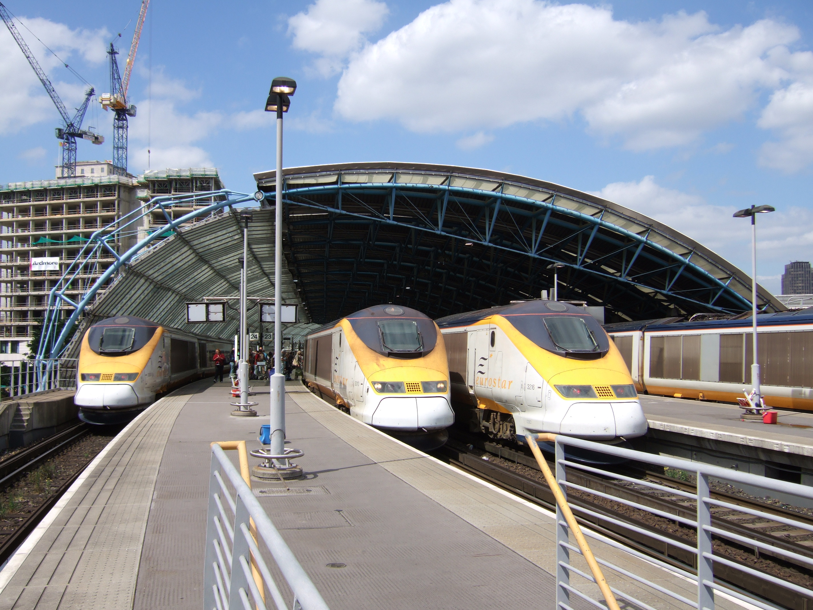 It was a hot week in the UK, I was off to Barcelona where it was cooler.